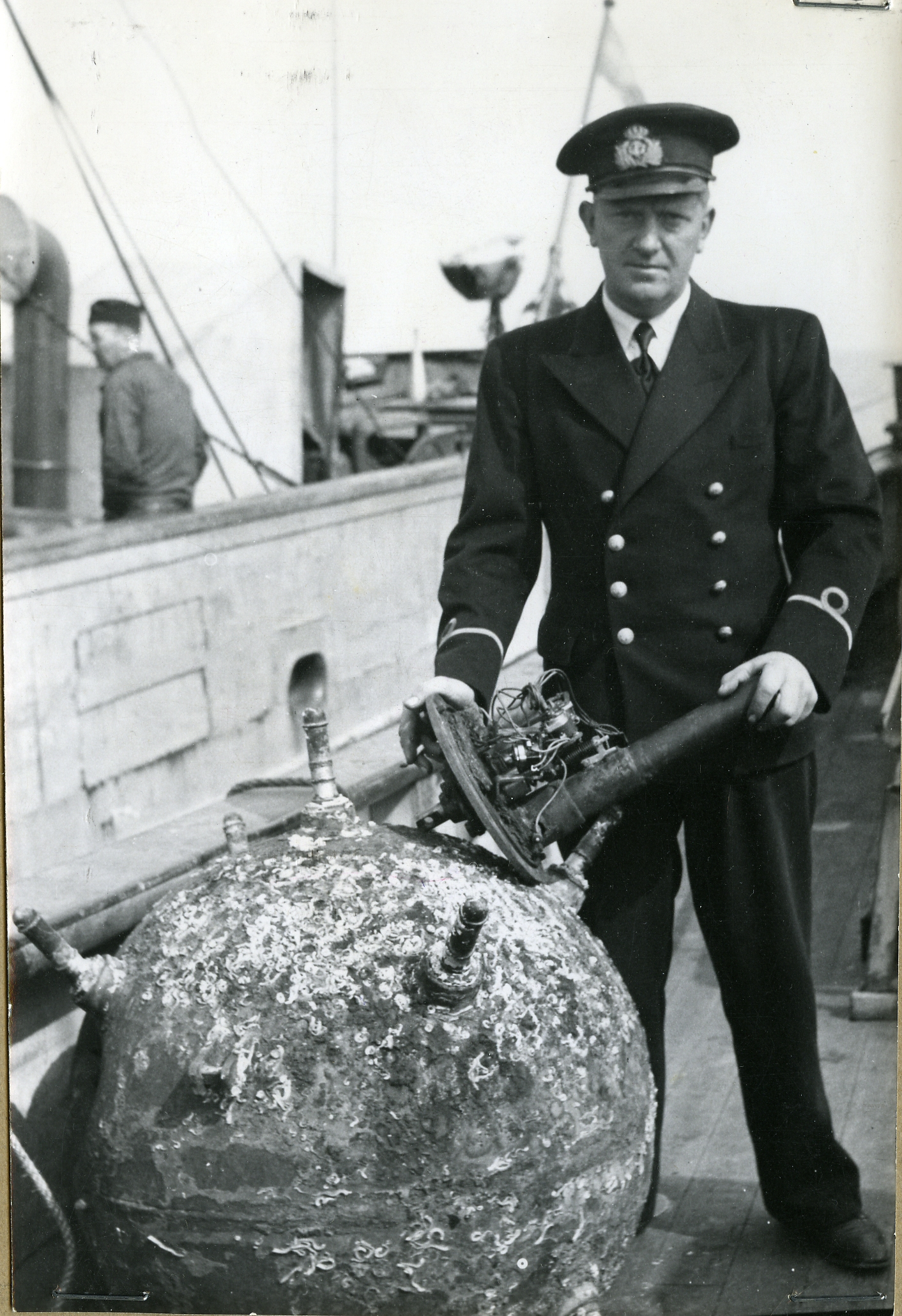 From the salvage of minestruck Swedish submarine HMS Ulven 1943. Ensign Evald Johansson holding the detonator from a swept contactmine disarmed by himself.